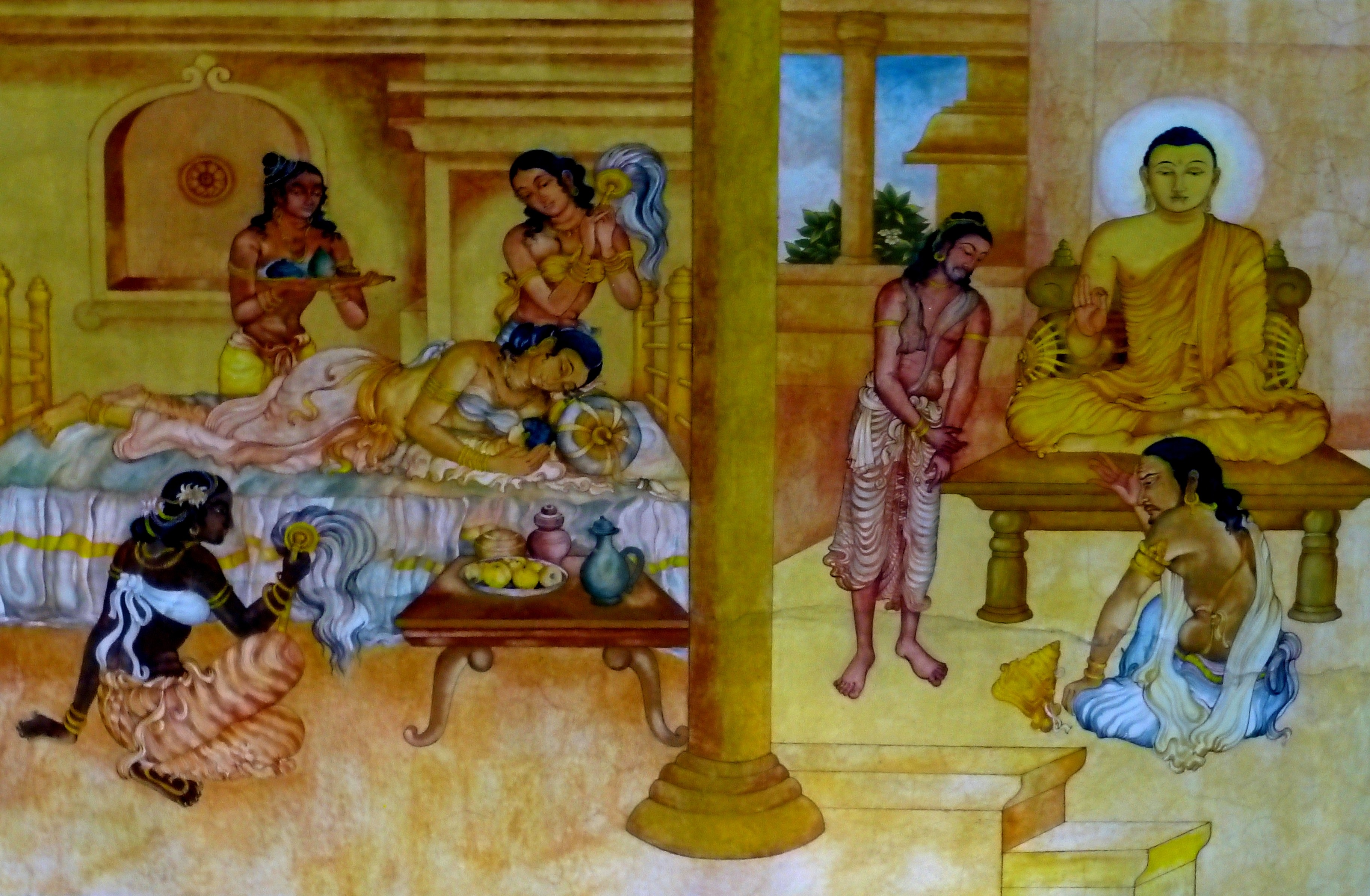 09 The Buddha praises Daughters to King Pasenadi, at the Nava Jetavana, Shravasti Photograph of murals in the Nava Jetavana temple, Jetavana Park, Shravasti, Uttar Pradesh, taken by Anandajoti.